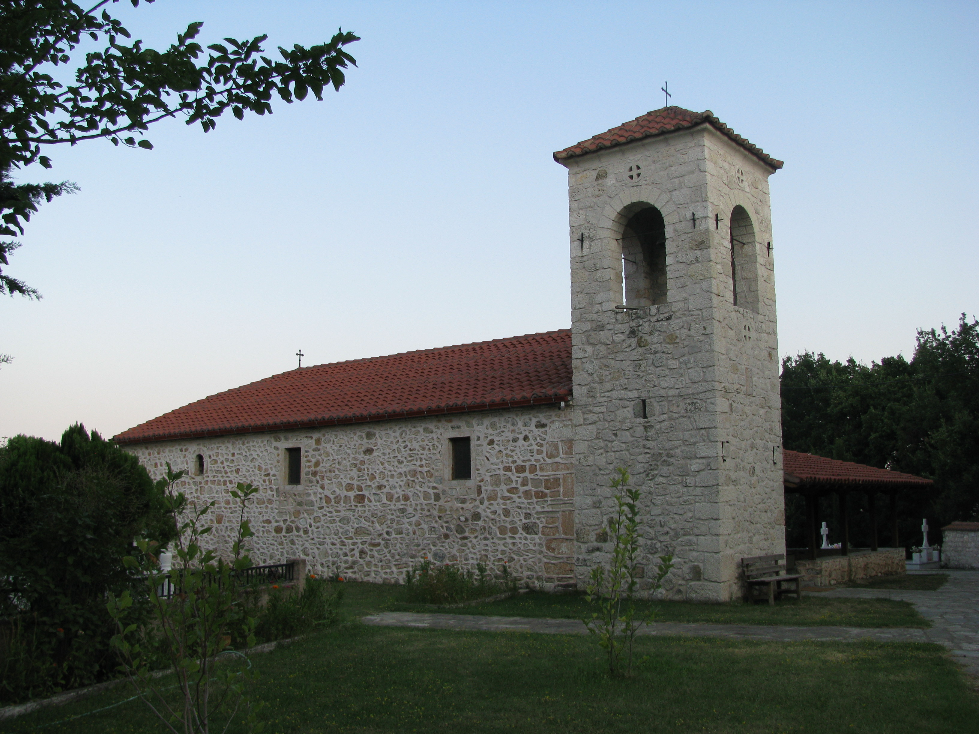 Church of village of Pendalofo/Petgas, Aegean Macedonia, Greece